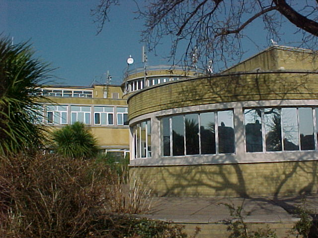 Pent Valley Technology College. Taken by James Armitage, 2004.